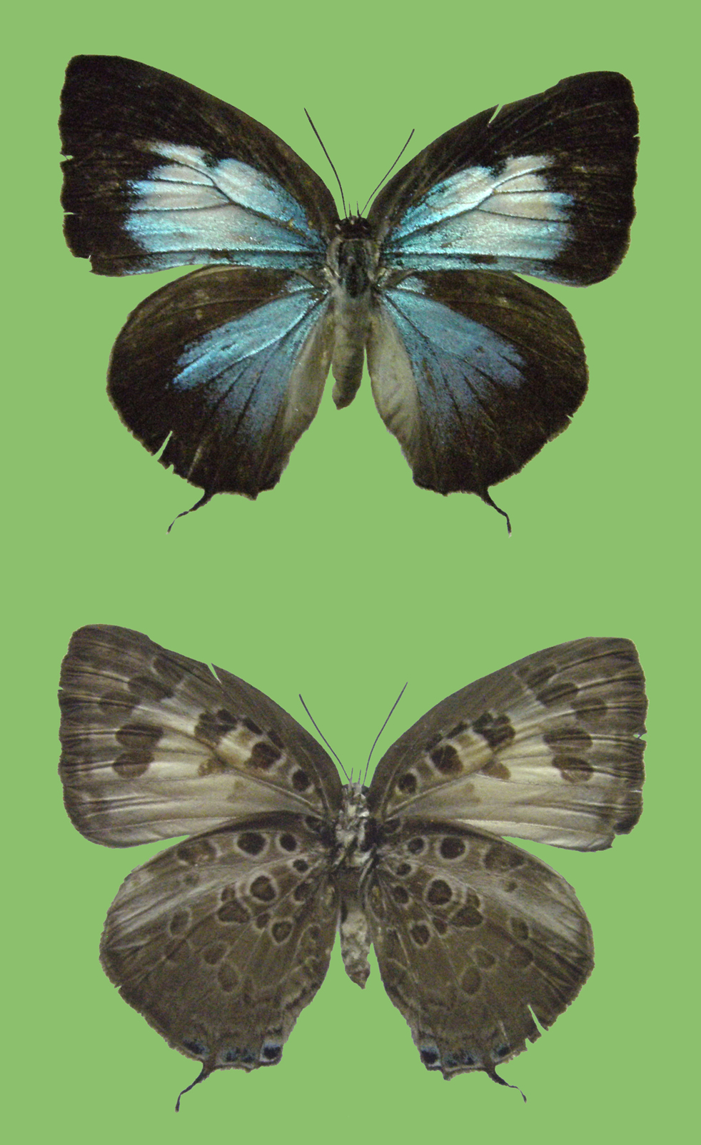 Arhopala hayashihisakazui, female